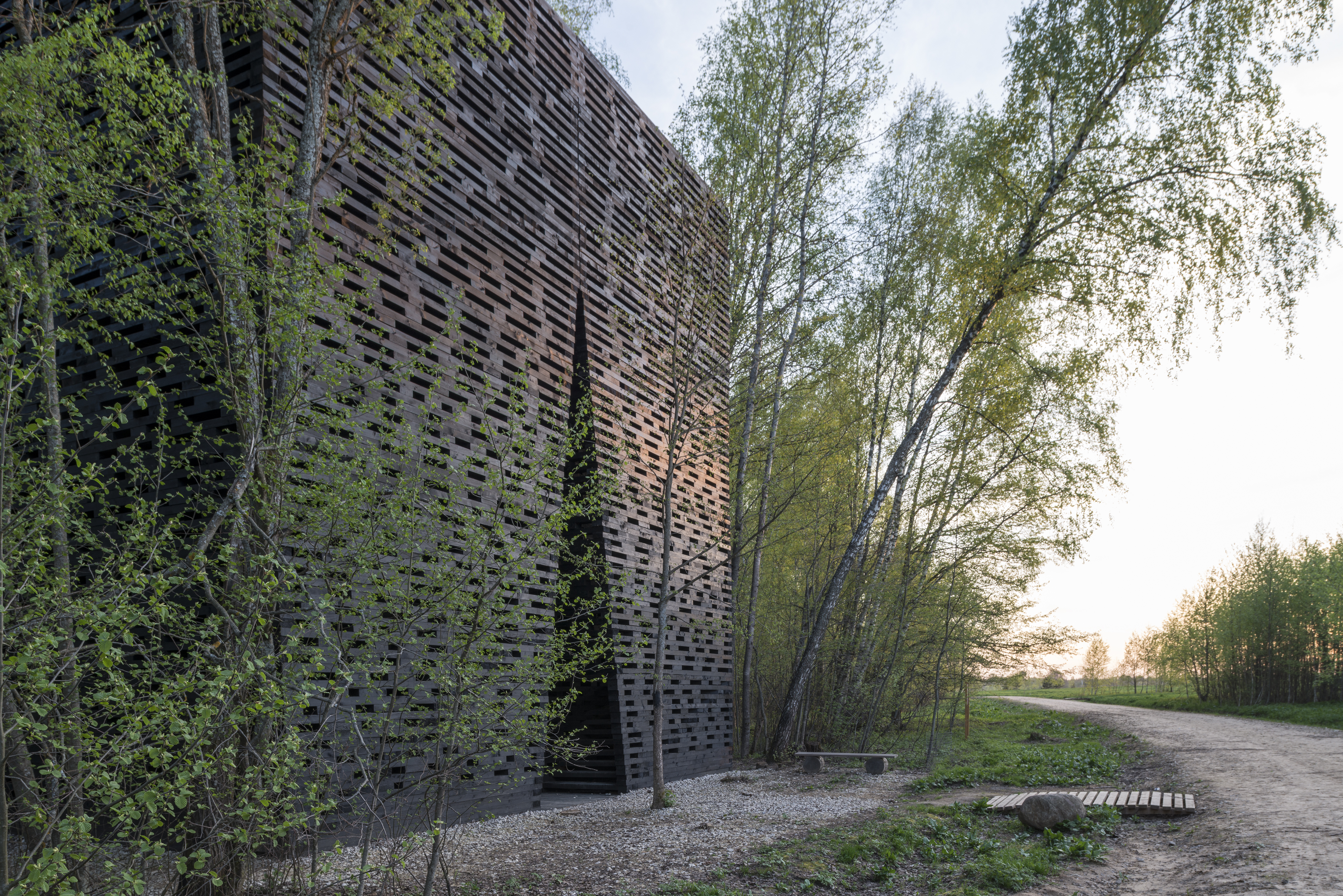 BERNASKONI's ARC in summer.